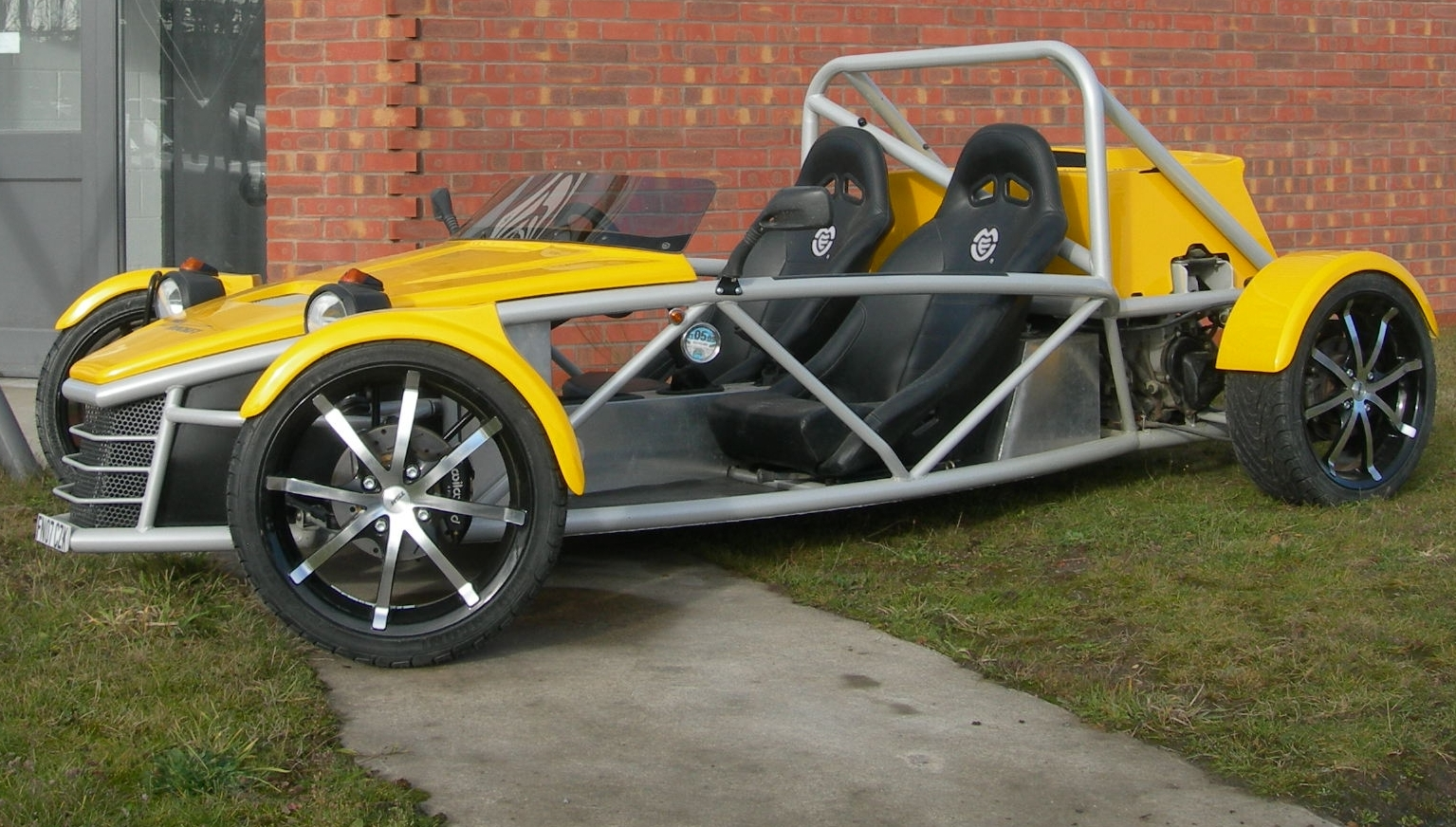 Front three-quarter view of yellow MEV Rocket